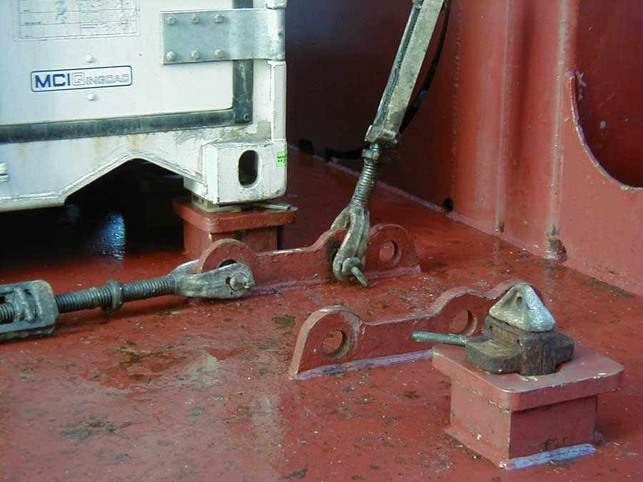 A twistlock and a lashing rod at the corner of a container on a containership deck.